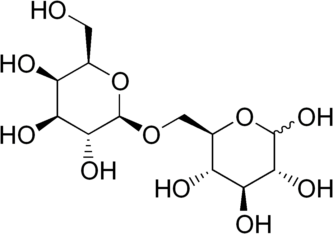 chemical structure of allolactose